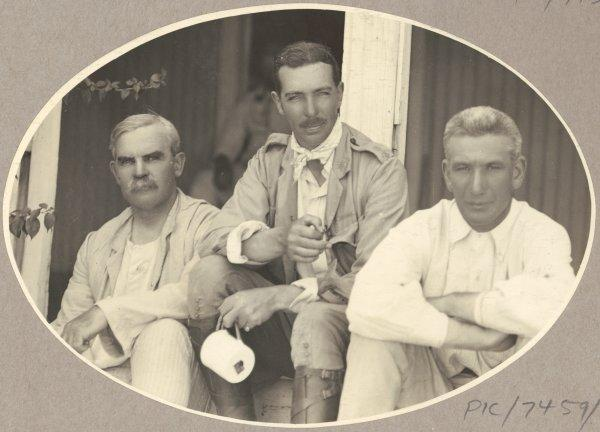 Black and white image of (from left) Minister Josiah Thomas, Sir Walter Barettelot and Dr. John Gilruth at Katherine Telegraph Station in 1912. Part of the souvenir of the visit of the Federal Parliamentary Party to the Northern Territory in April - May, 1912.